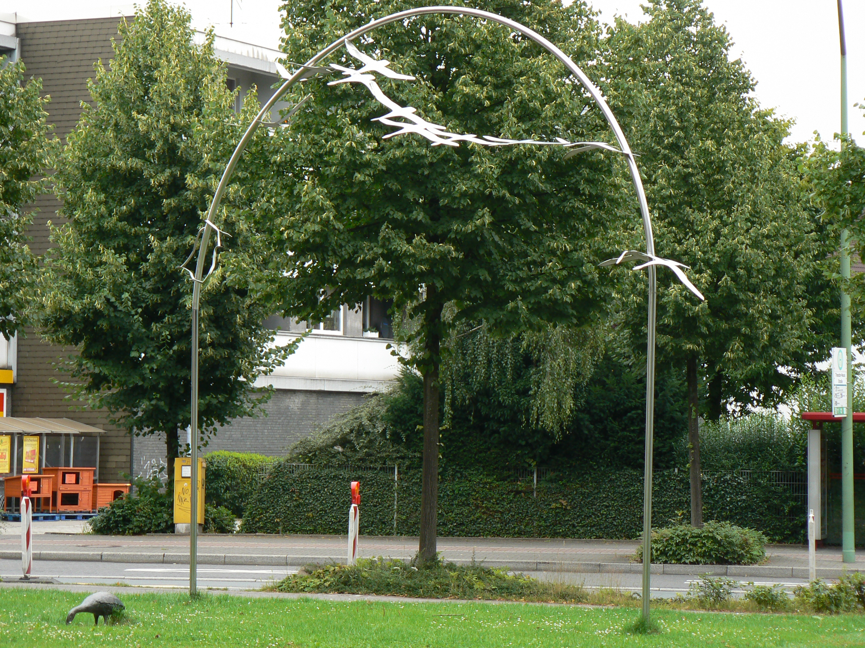 Sculpture: Gänsebogen (1997) by Wolfgang Lamché in Herten/Germany